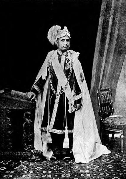 Sri Rama Varma (Mulam Thirunal)